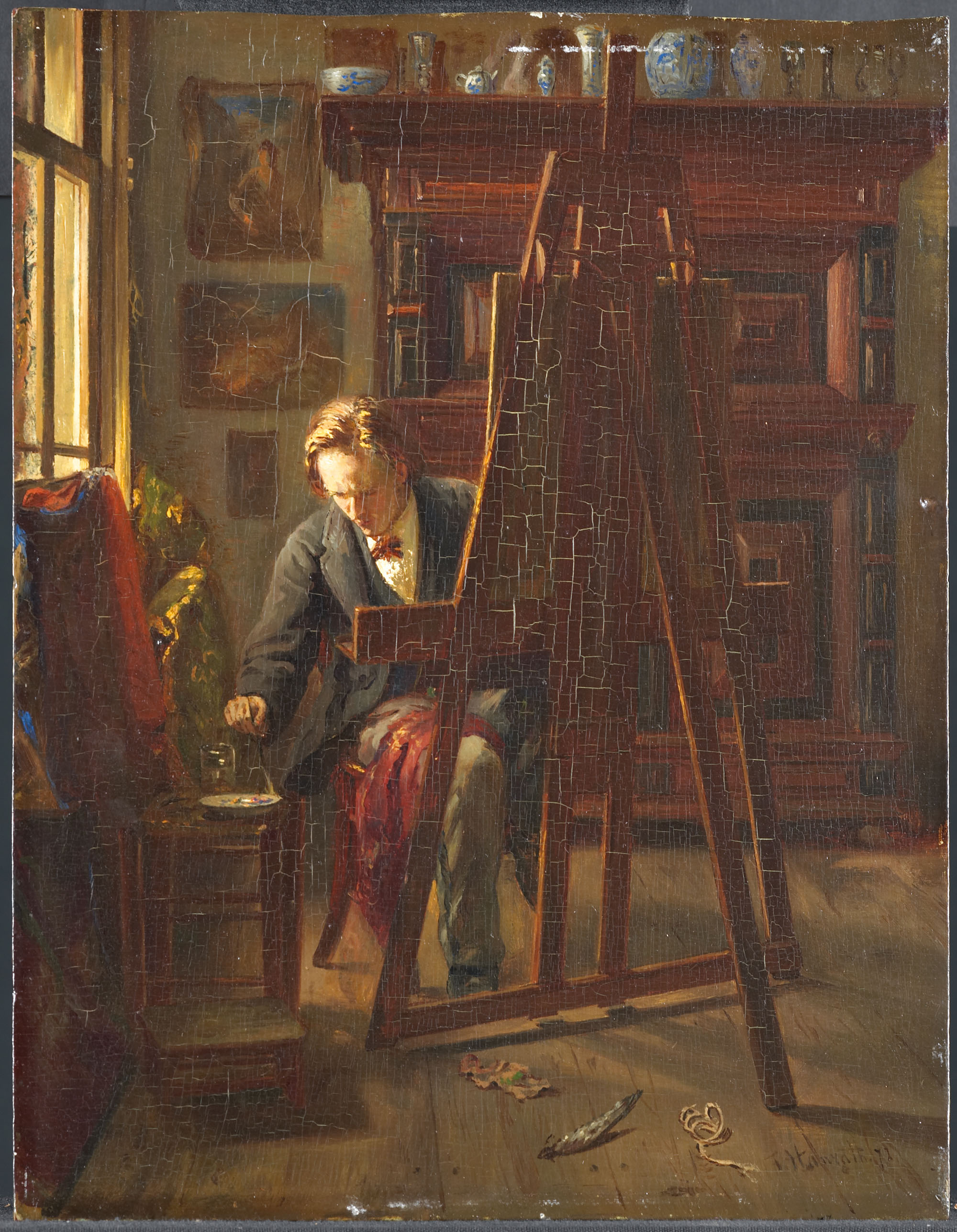 De schilder George Jan Hendrik Poggenbeek (1854-1903) in zijn atelier